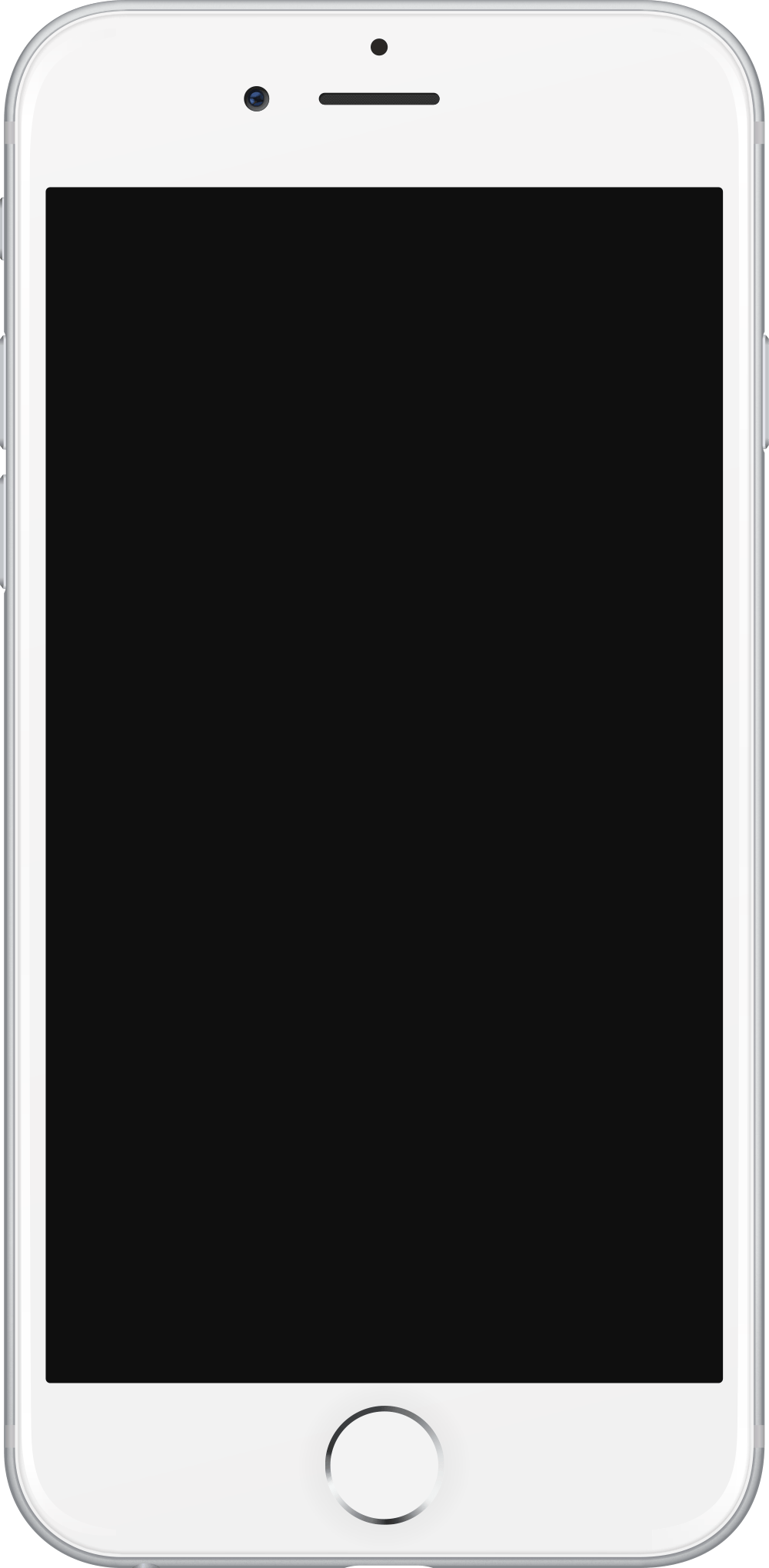 mockup of the iPhone 6